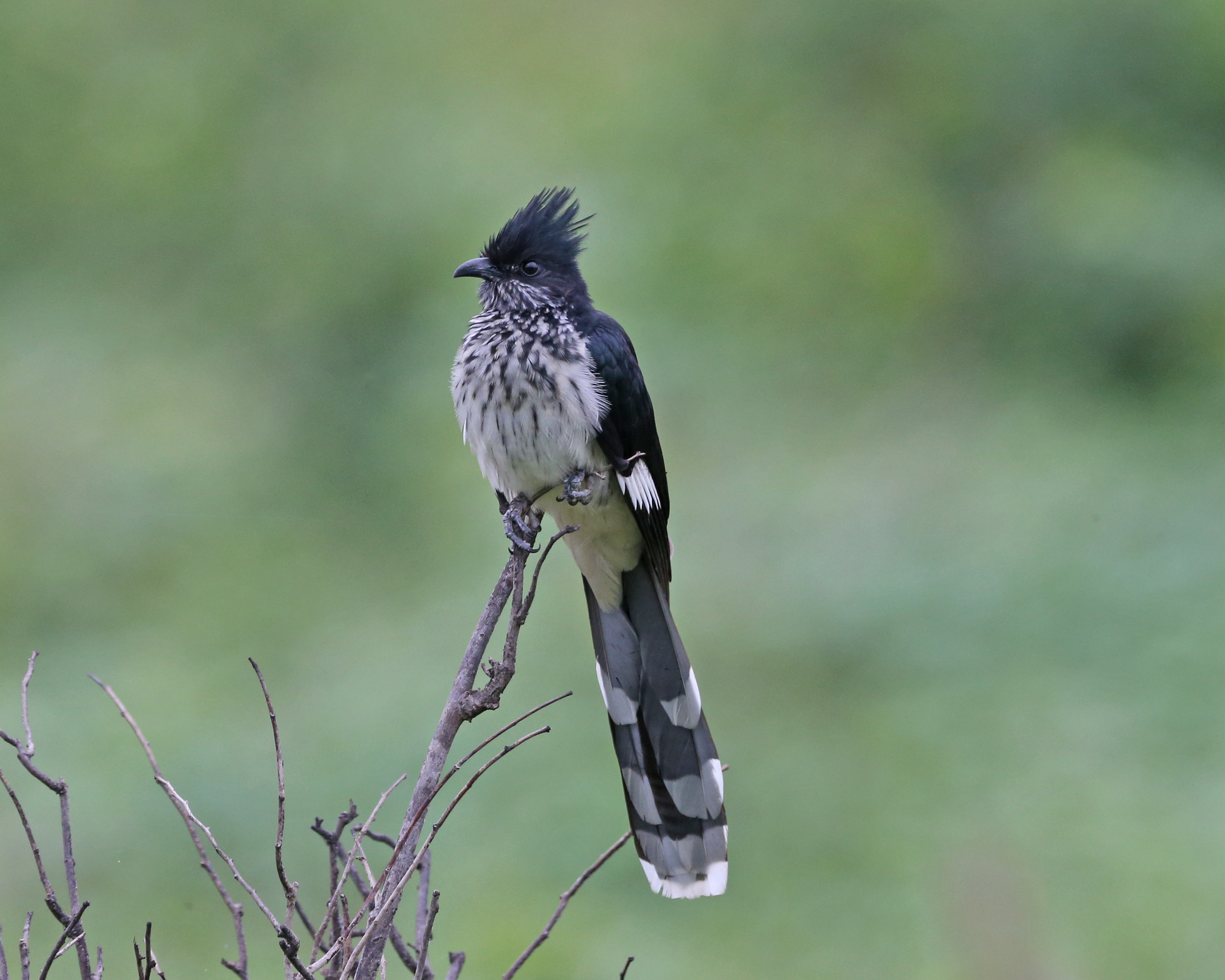 Levaillant's cuckoo perched on a shrub near the Chobe River in Kasane, northern Botswana.